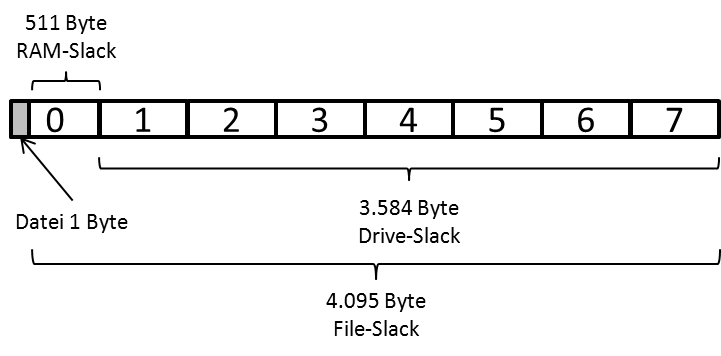 Explanation of File-Slack, which is File-Slack and Ram-Slack, showing the last cluster of a file.